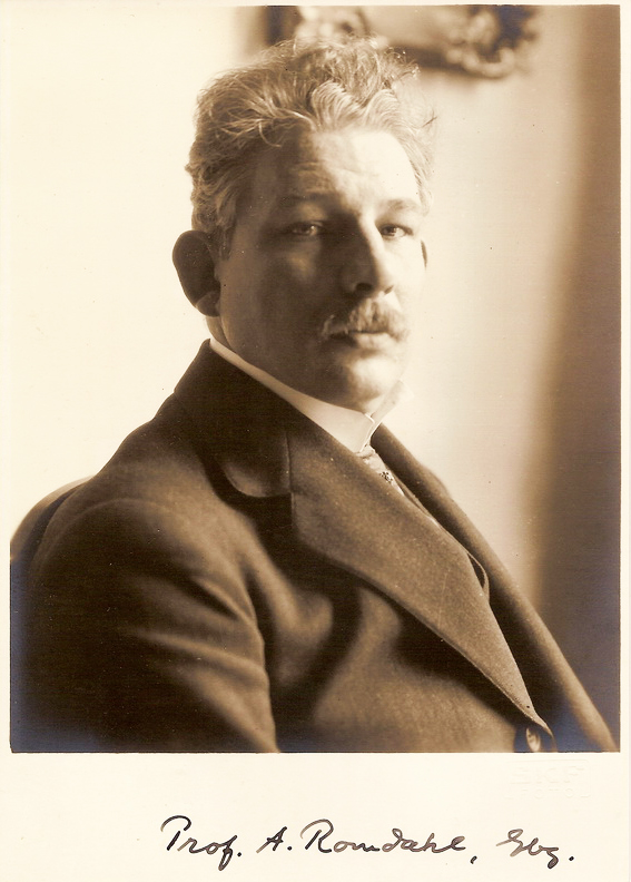 Autographed photo of Axel Romdahl (1880-1951), Swedish professor of art history at Gothenburg University and head of Gothenburg Museum of Art.